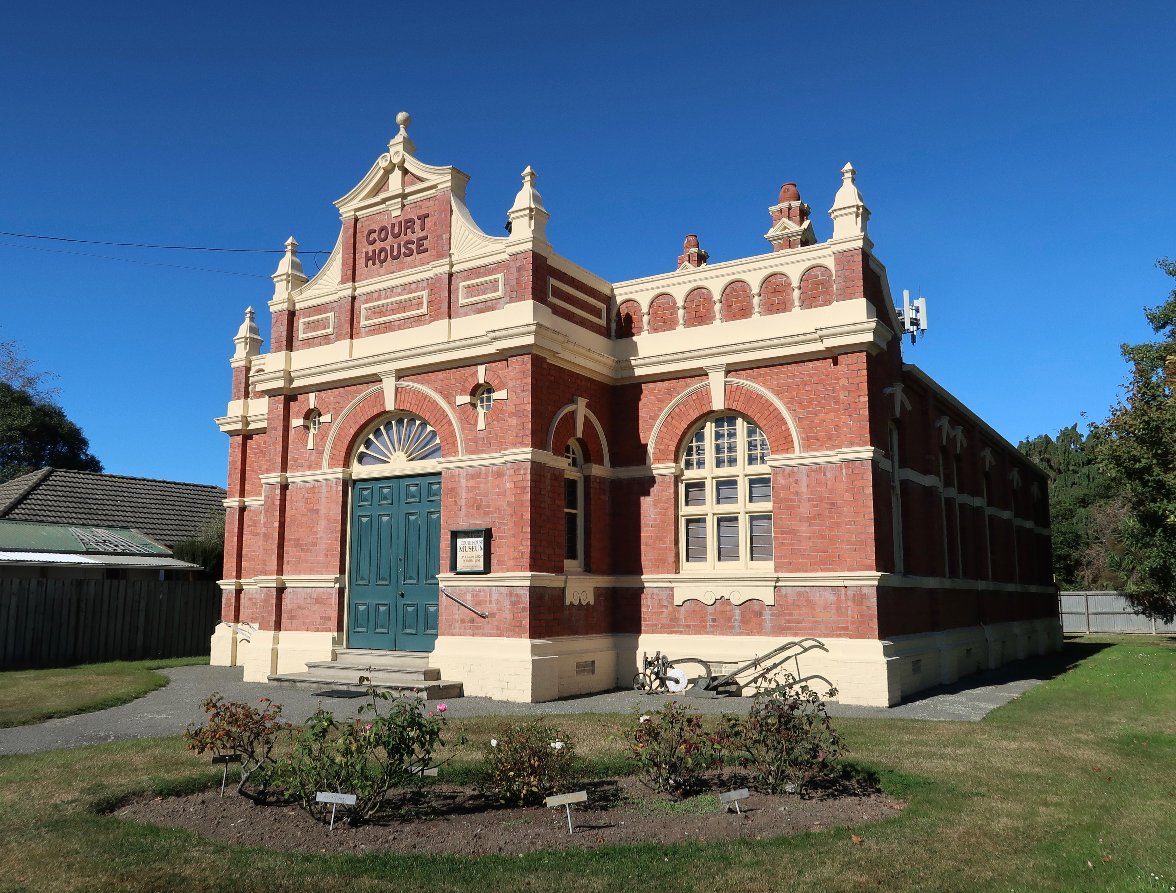 Court House building in Temuka (Q1002886), Canterbury, New Zealand, built c. 1900. This red brick courthouse with Baroque elements was designed by John Campbell of the Public Works Department, and functioned until 1979. It is now the town museum.